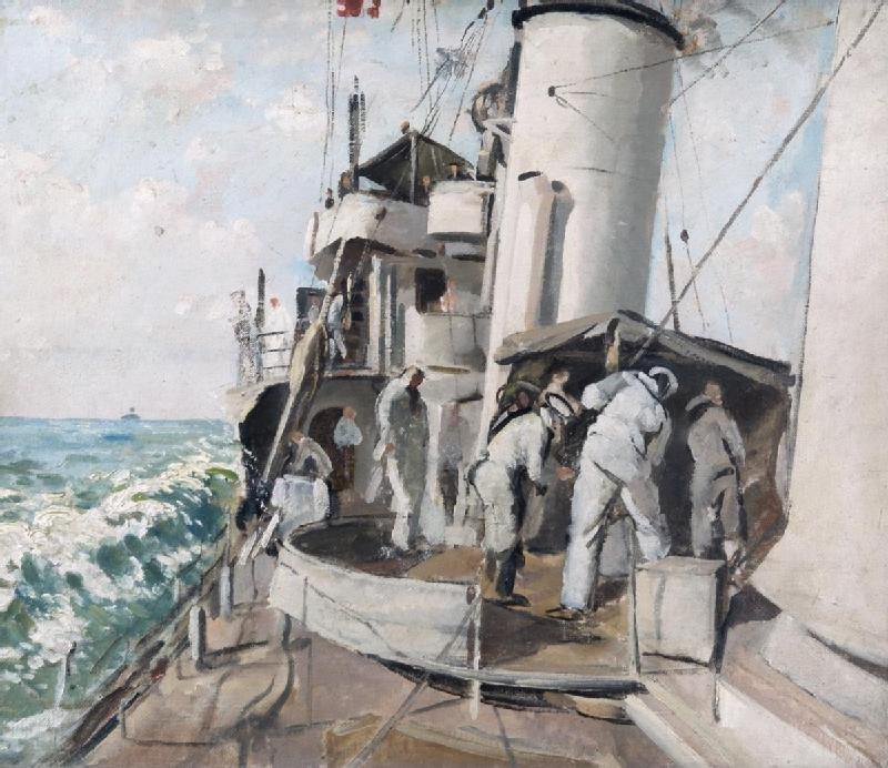 This painting is a sketch for IWM ART 1313 image: A view from the port side deck of the destroyer HMS Melampus. In the foreground four sailors man a circular gun turret, which is placed between two large funnels. Other sailors can be seen on an upper deck and looking out from the bridge. The turbulence in the water shows that the ship is moving quickly. Another vessel is visible on the horizon.